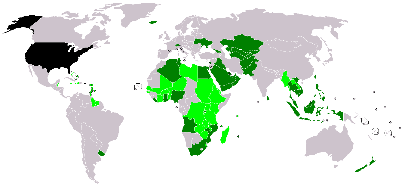 US Trade and Investment Framework Agreement. Dark green: bilateral US-partner agreement, light green: US-trade bloc agreement (COMESA, EAC, CARICOM, ASEAN)